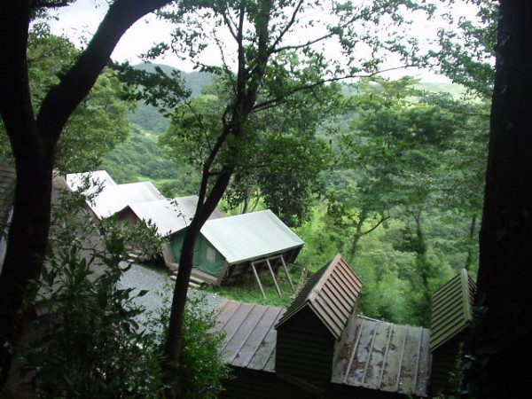 The vacant lot of Mariyatu castle in Kisarazu city, Chiba, Japan. Presently, This place is campground "Syonen-Shizen-no-Ie"